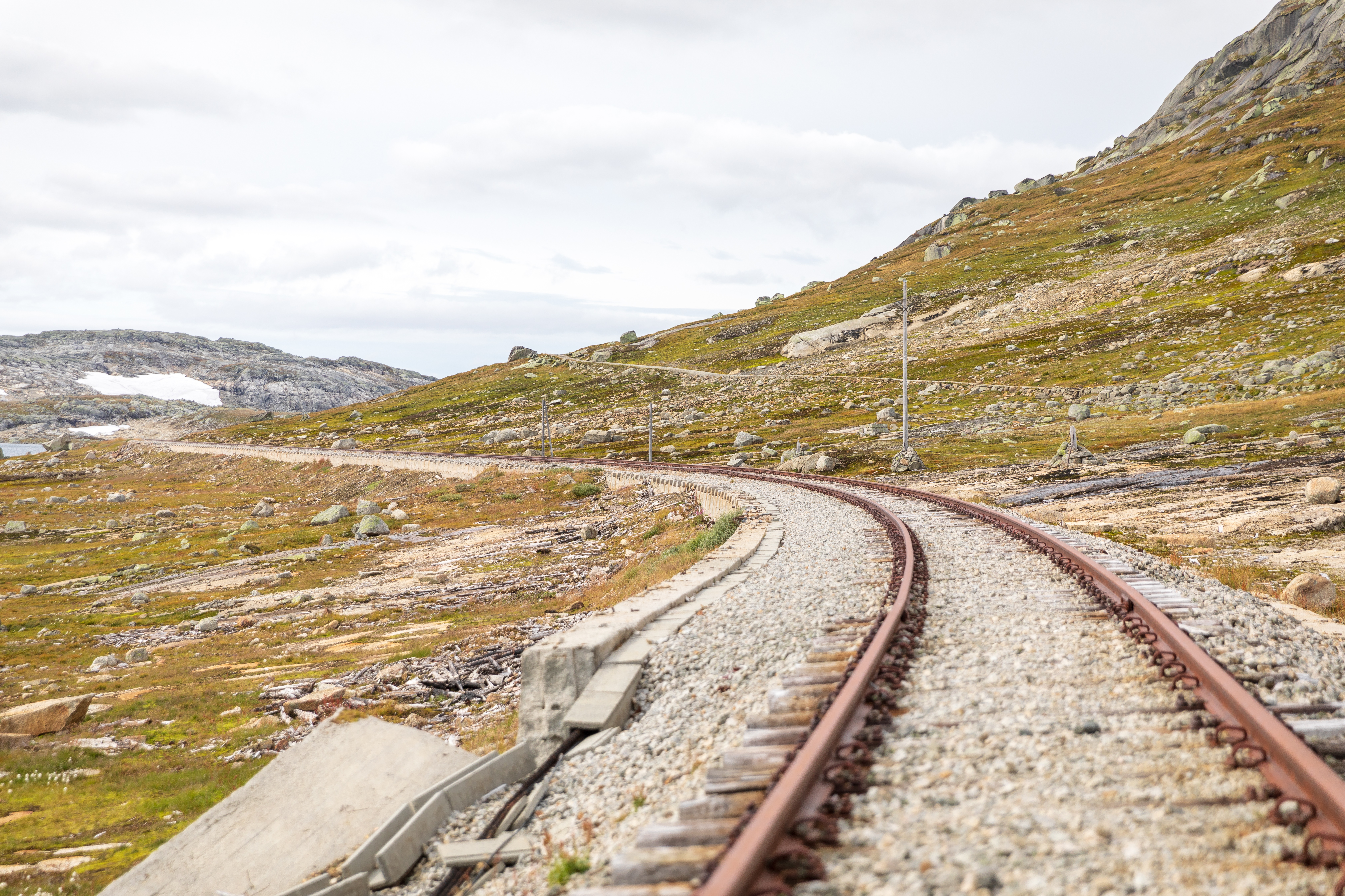 From the Navvy Road (local "rallarvegen") along the Bergen Railway.